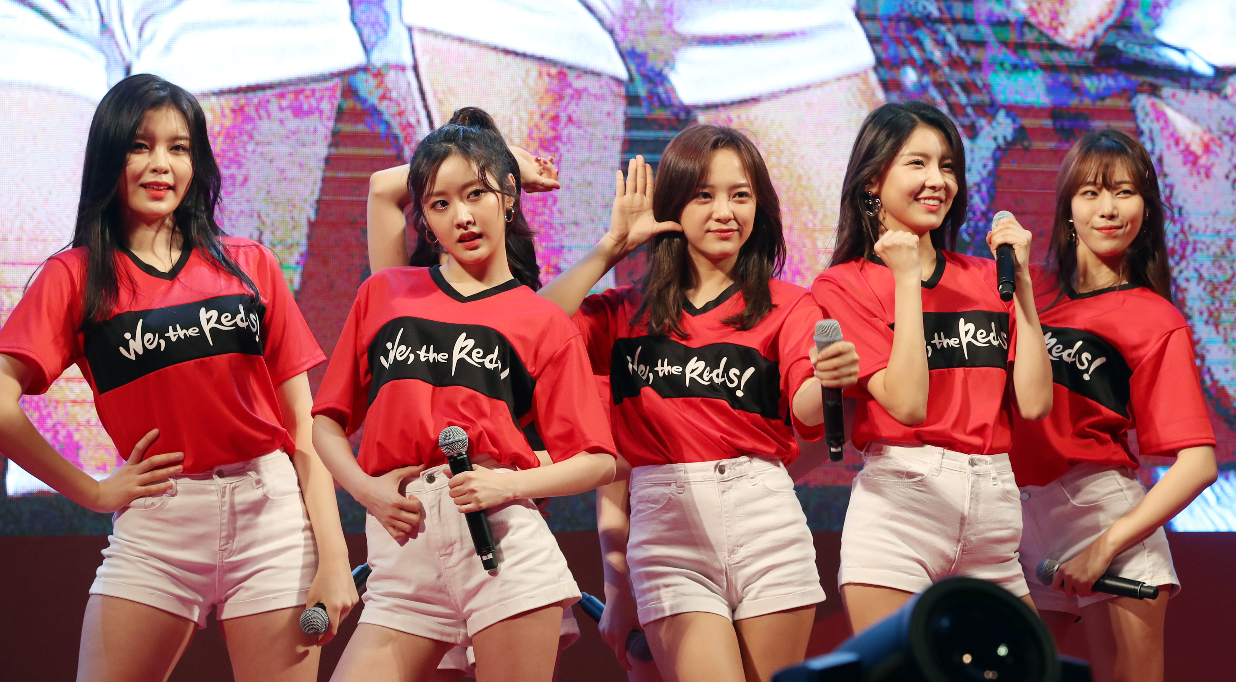 2018 FIFA World Cup Russia: Korea vs Sweden on June 18, 2018 at Gwanghwamun Square, Jongno-gu in Seoul.